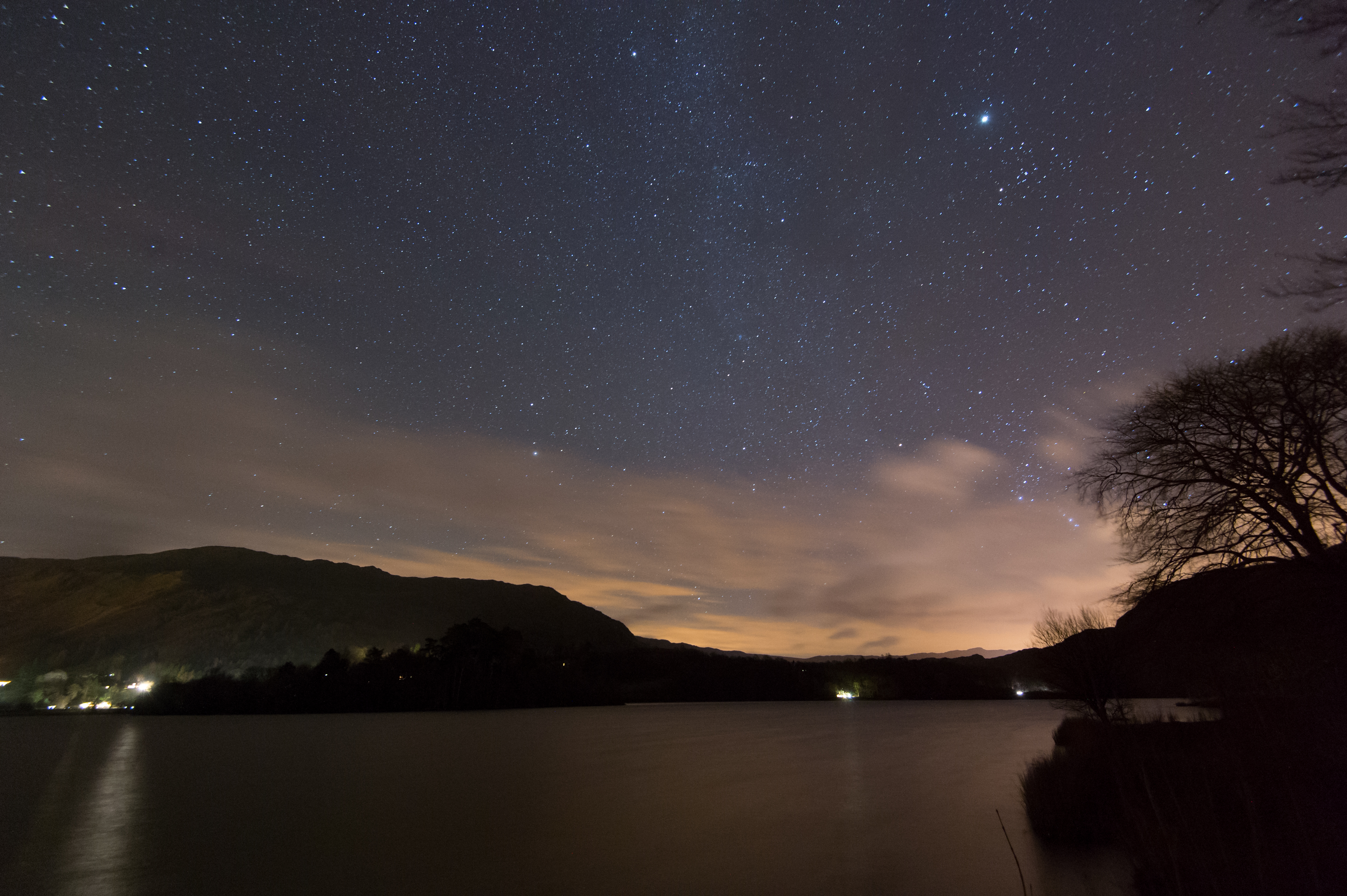 The stars were so beautiful and stunning. It takes my breath away and I couldn't do anything but standing right there to view this amazing scene for a while. 夜空がとてつもなくきれいで衝撃を受けました。息をのむ美しさとはこういう光景をいうのでしょう。あまりにもきれいだったのでその場にしばらく立ち尽くしました。 [ Nikon D4, Nikon AF-S NIKKOR 16-35mm f/4G ED VR, 16mm, f/4.0, 30sec, ISO5000, Tripod, Lightroom 4.3 ]